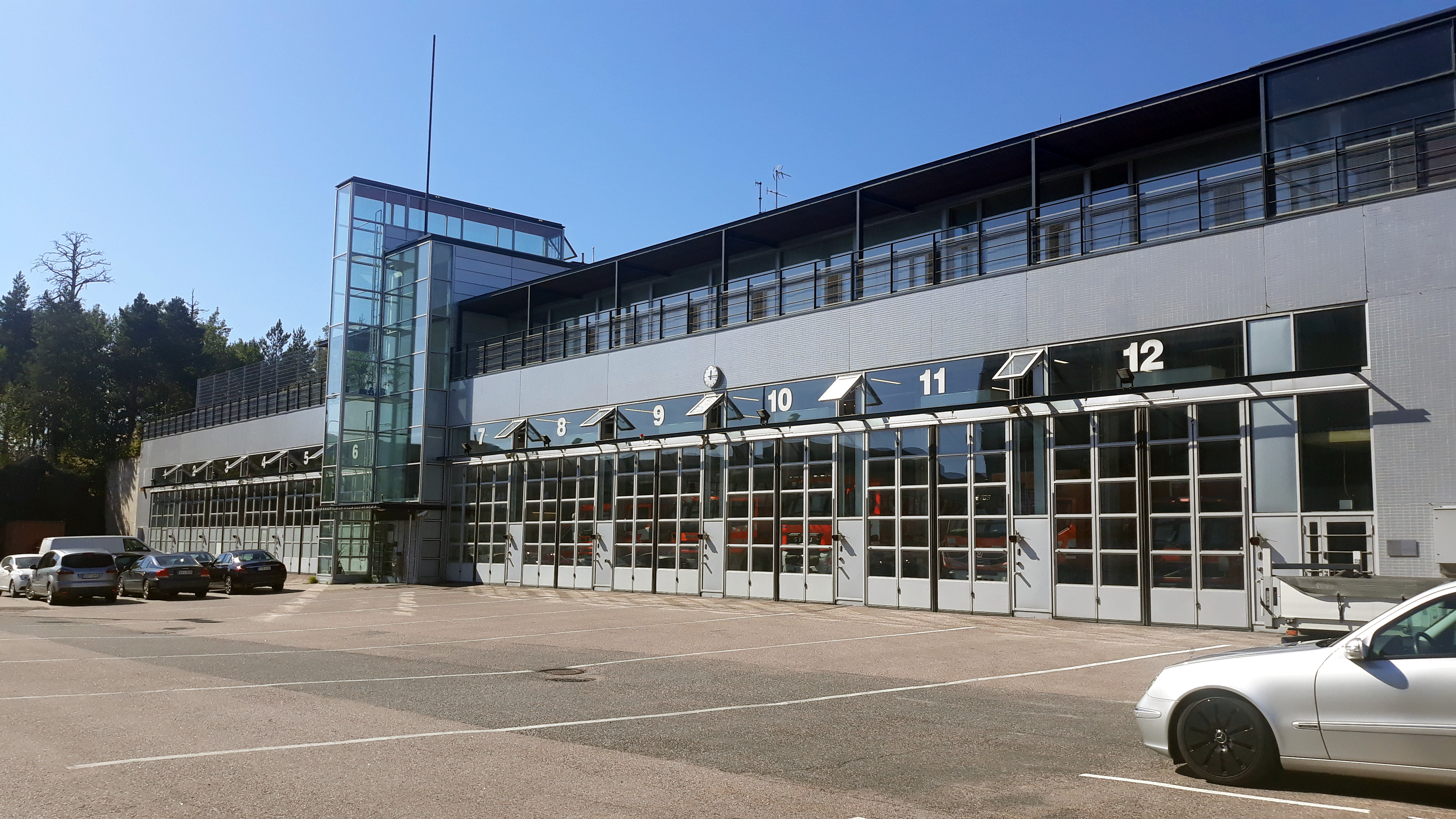 Herttoniemi fire station in Helsinki.